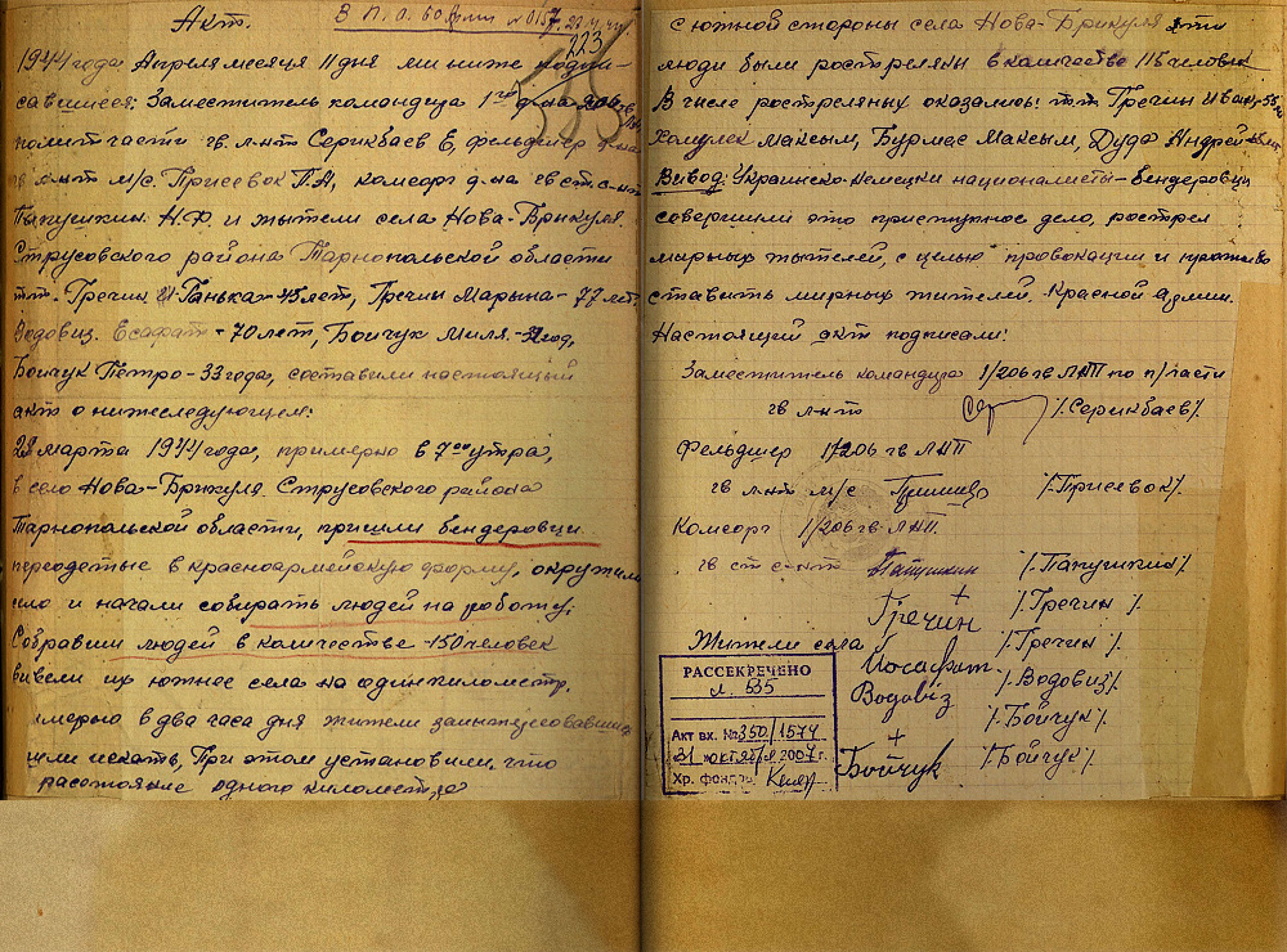 Statement, fabricated by Russian military officials about shooting of Nova-Brykulia village Ukrainian dwellers by Ukranian nationalists, to cover their own crimes of killing innocent people while invading Ukraine